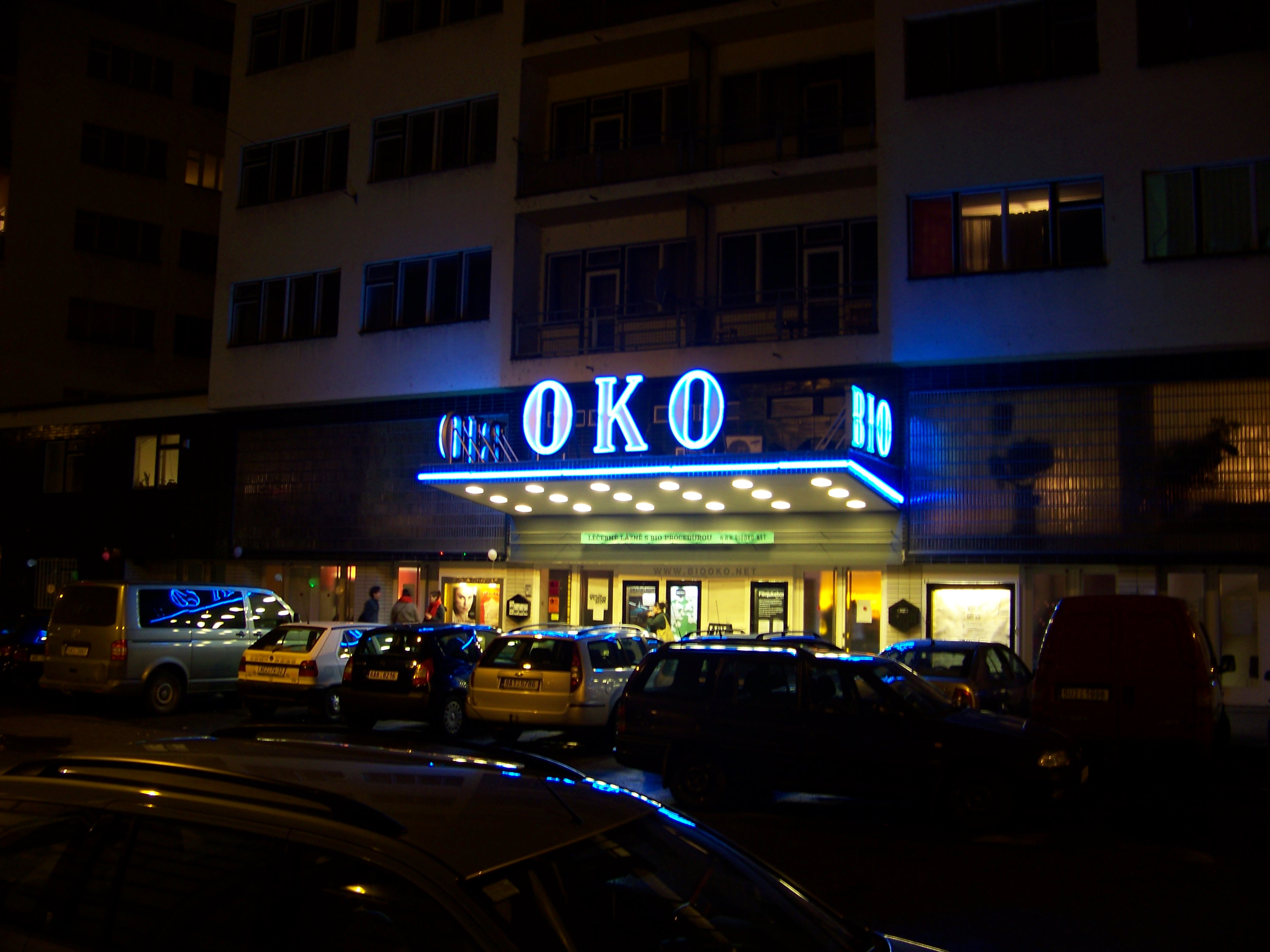 Prague-Holešovice, the Czech Republic. Františka Křížka street, Bio Oko (Eye Cinema).